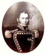 Portrait of famous Peruvian Admiral Jorge Martin Guise